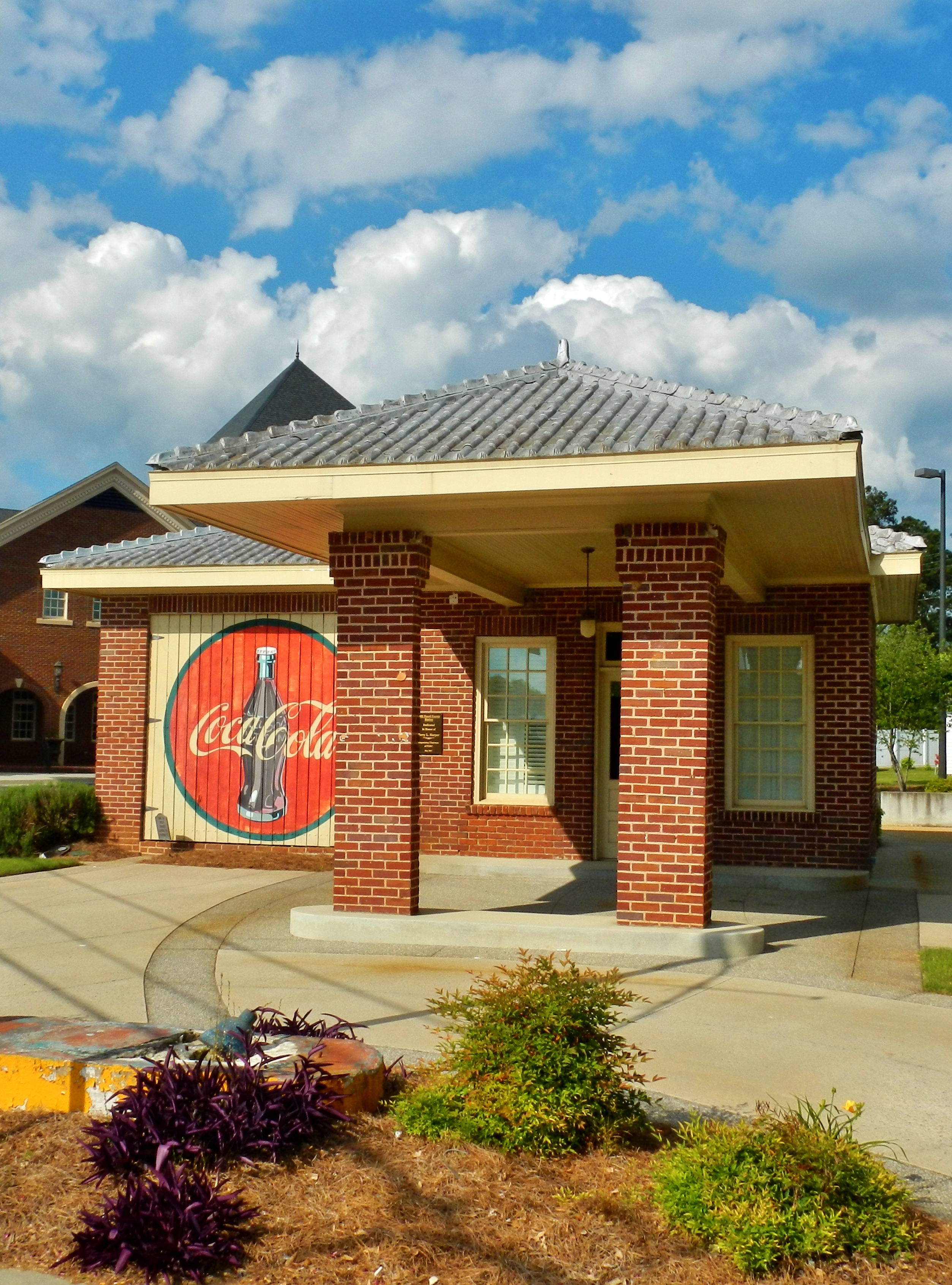 This is a photo of the old Heard County Service Station (c. 1938) in Franklin, GA.